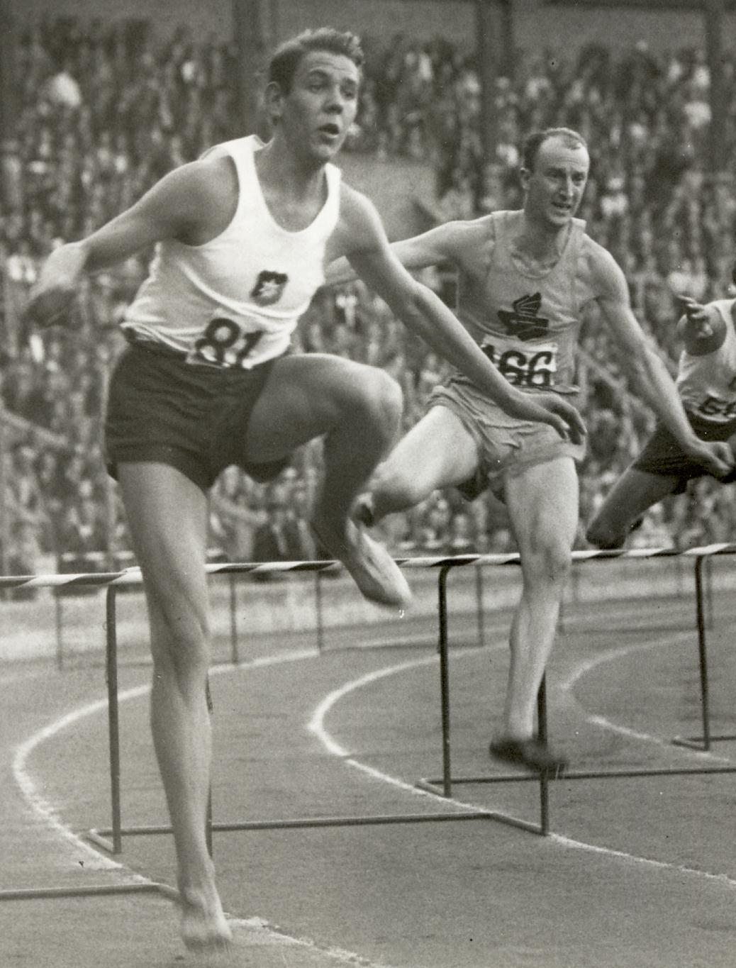 Håkan Lidman (left) and Sten Pettersson (2nd left) at a Swedish hurdles competition